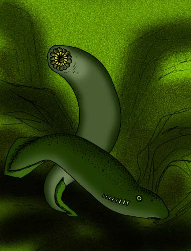 Reconstruction of the Mazon Creek lamprey, Pipiscus zangerli, of Late Carboniferous Illinois